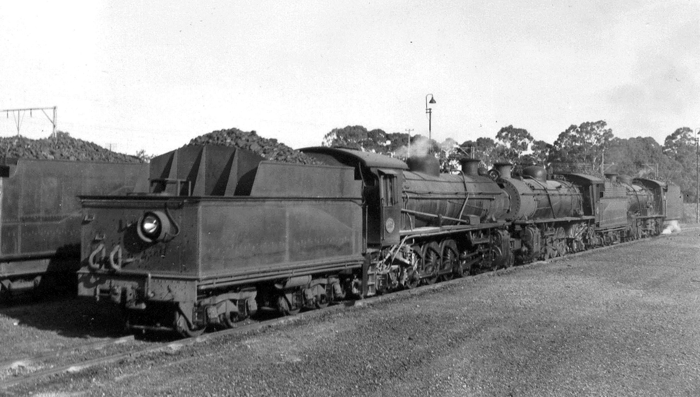 Classes 4AR no. 1560 with Type XP1 tender, 4AR no. 1554, 16CR no. 830, Millsite, Krugersdorp